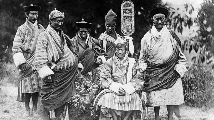 A photo from John Claude White's trip to Sikkim and Bhutan. It was found in the book, Castles in the Air: Experiences and Journeys in Unknown Bhutan. It is of the 23rd Penlop of Paro (sitting), Dawa Peljor.